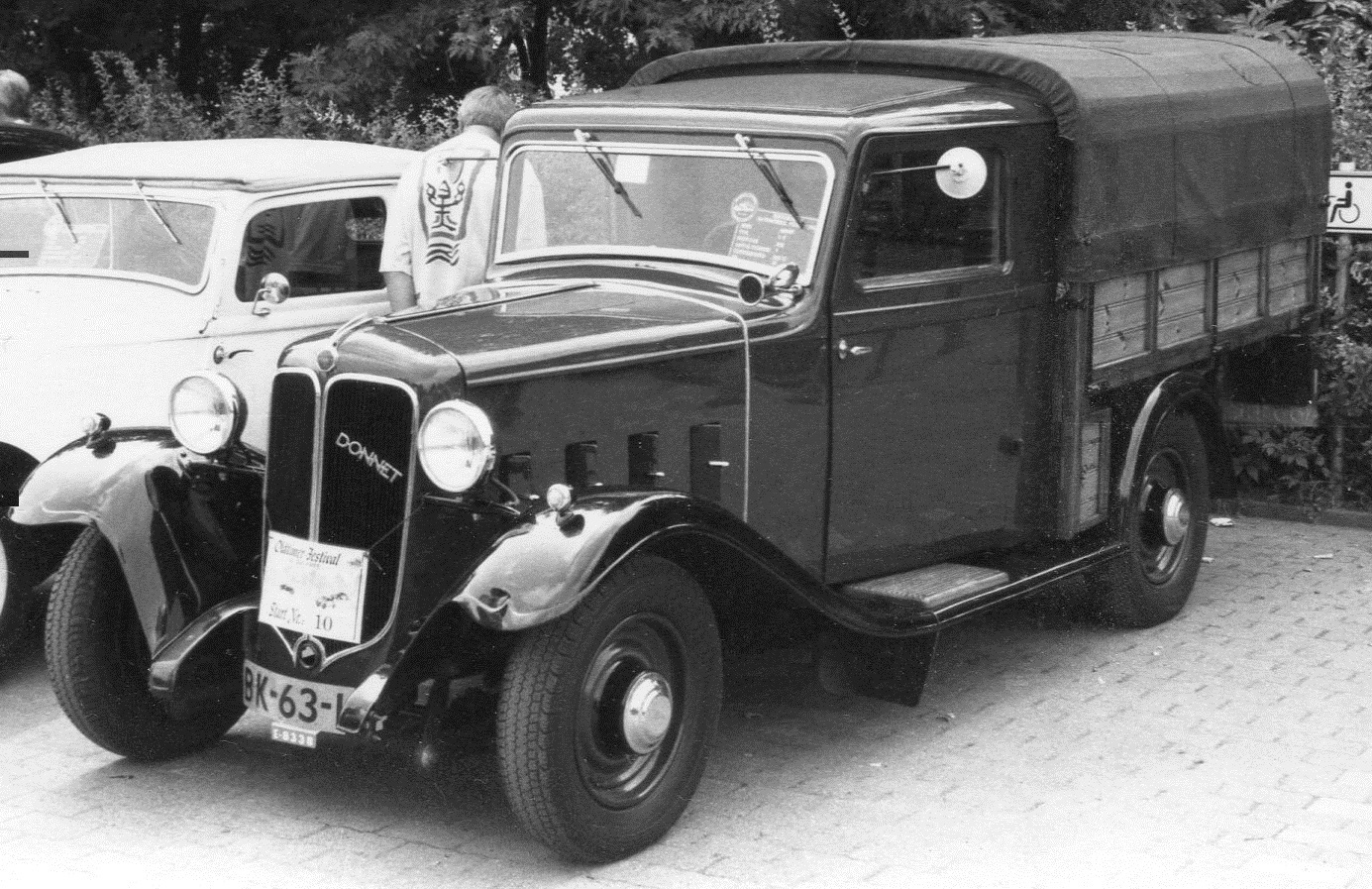 A car I photographed in 1995. The pic is in b&w because I still had a film from a previous job for a local newspaper in my Canon. The car belonged to a Dutch gentleman with white hair and I have a picture of him too.